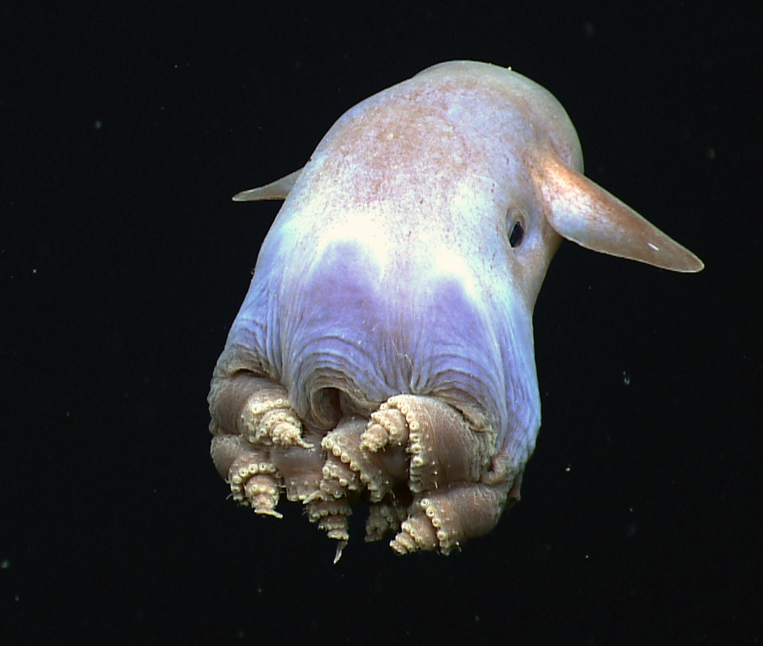 One of the highlights of the dive, a dumbo octopus (Grimpoteuthis) uses his ear-like fins to slowly swim away – this coiled leg body posture has never been observed before in this species.